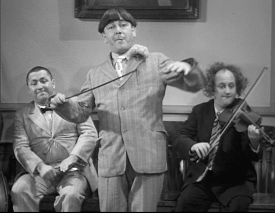 A scene from Disorder in the Court.